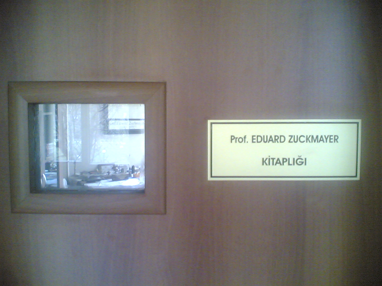 German composer Prof.Dr. Eduard Zuckmayer (1890-1972)